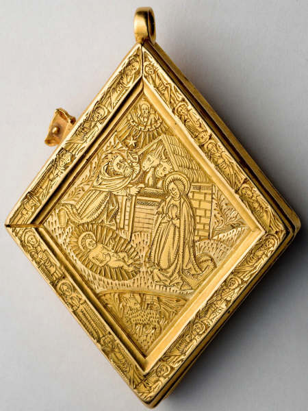 Gold lozenge-shaped pendant with a sapphire. Engraved with religious subjects and inscription.